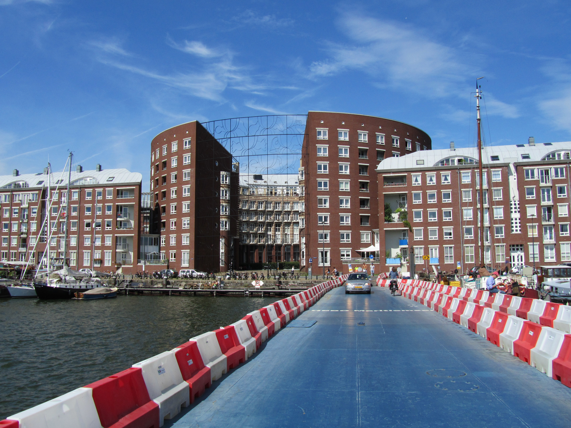 Modern architecture in the Eastern Docklands of Amsterdam. The Barcelonaplein apartment building on KNSM-eiland (1993), designed by Belgian architect Bruno Albert. Photo taken from a temporary pontoon bridge across the Ertshaven, constructed for the SAIL 2010 event. (demolished)